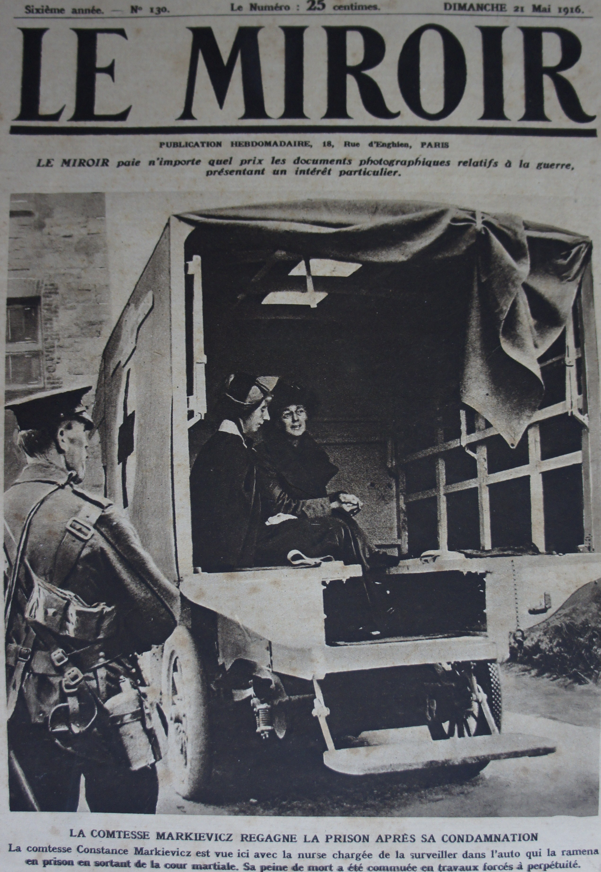 extrait du journal "le miroir".